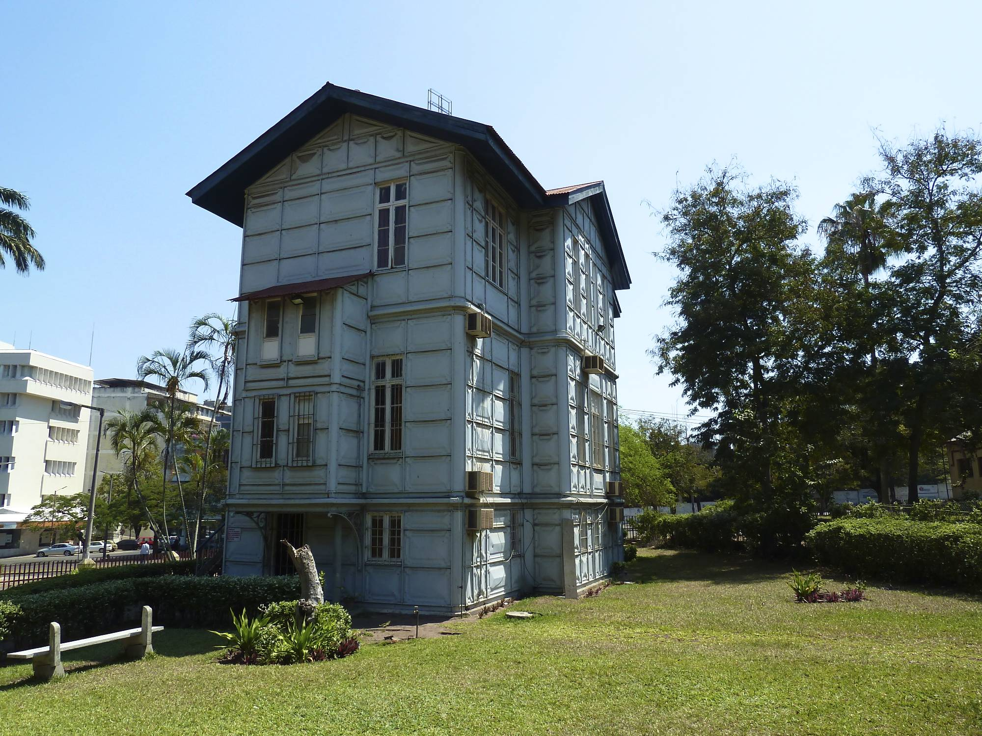 The "Iron House" in Maputo, Mozambique